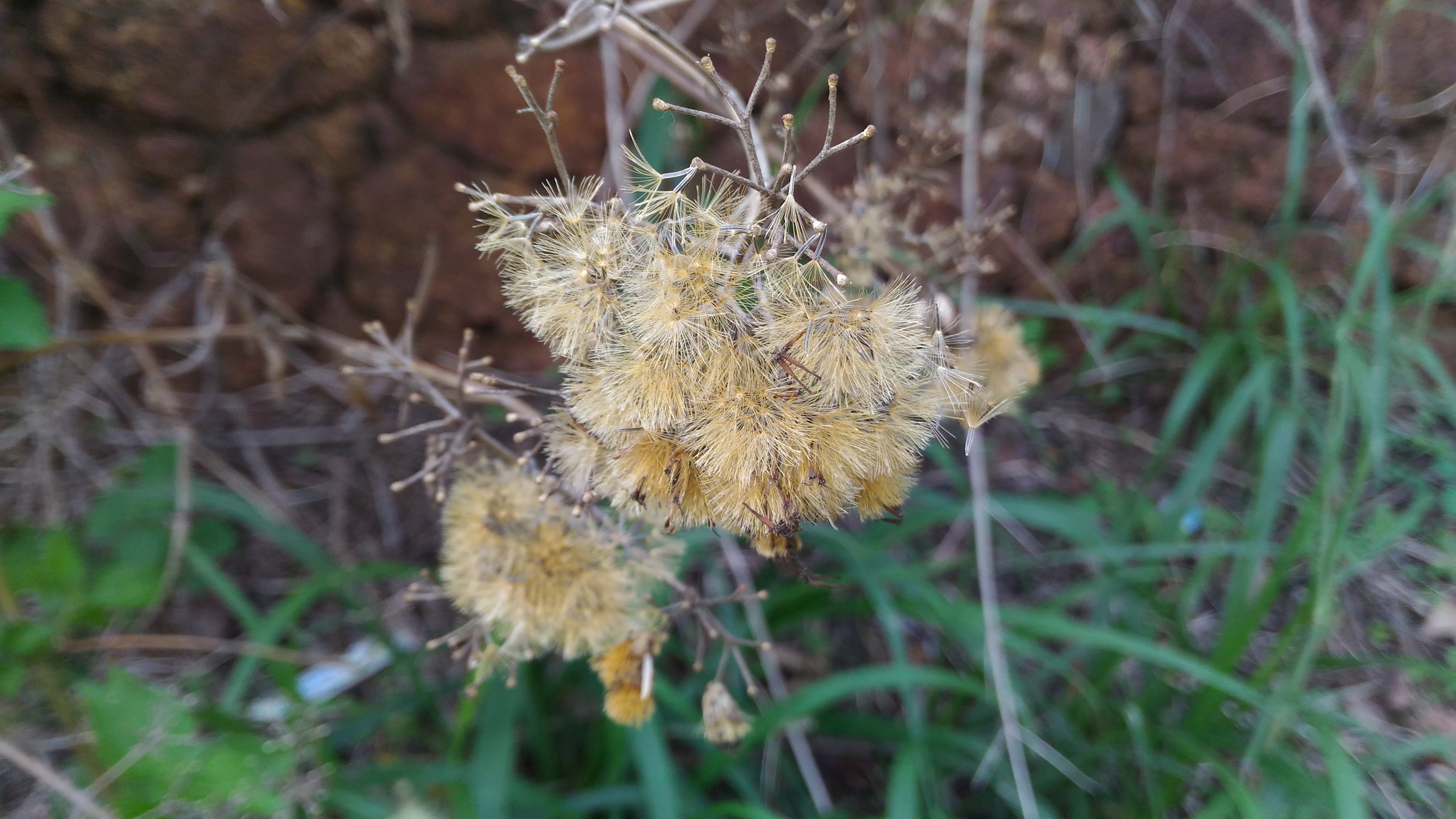 The seeds are achenes and are somewhat hairy. They are mostly spread by the wind, but can also cling to fur, clothes and machinery, enabling long distance dispersal.